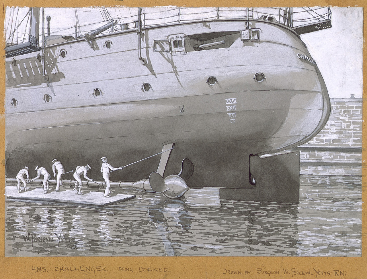 H.M.S. Challenger being docked Heightened with white.; Signed by artist and dated.